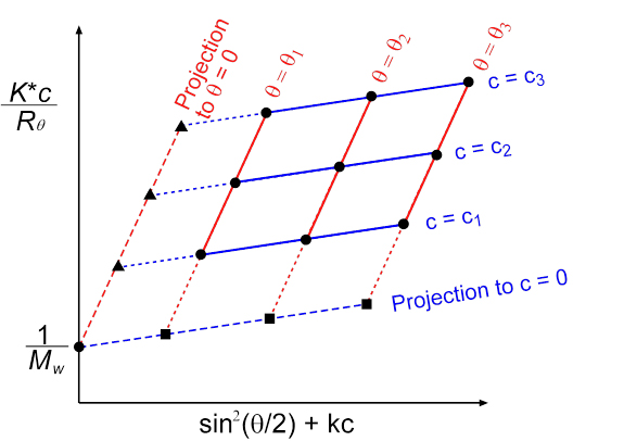 This file is an explanation of how a Zimm Plot is used to determine molar mass and size